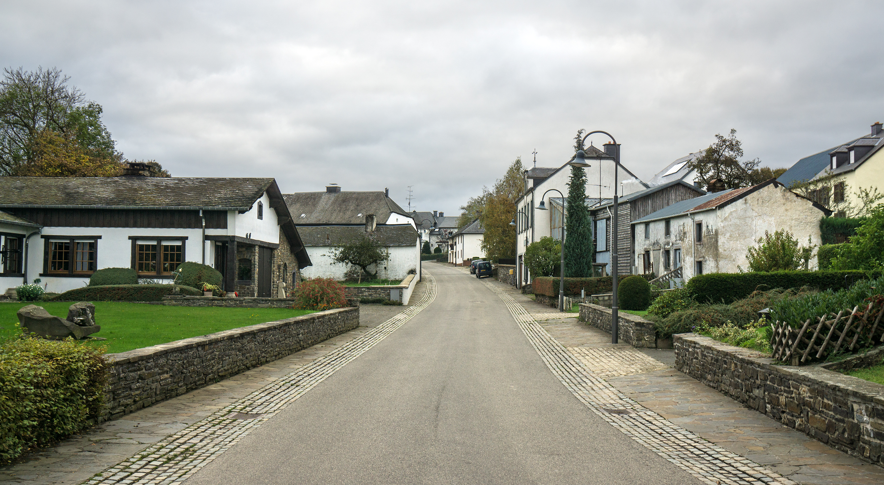 Main street of Weicherdange